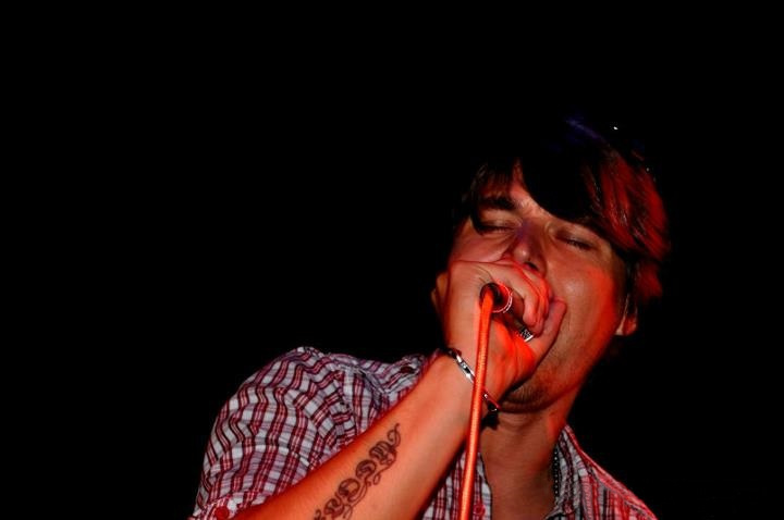 Alban Skënderaj (born April 22, 1981) is an Albanian singer.